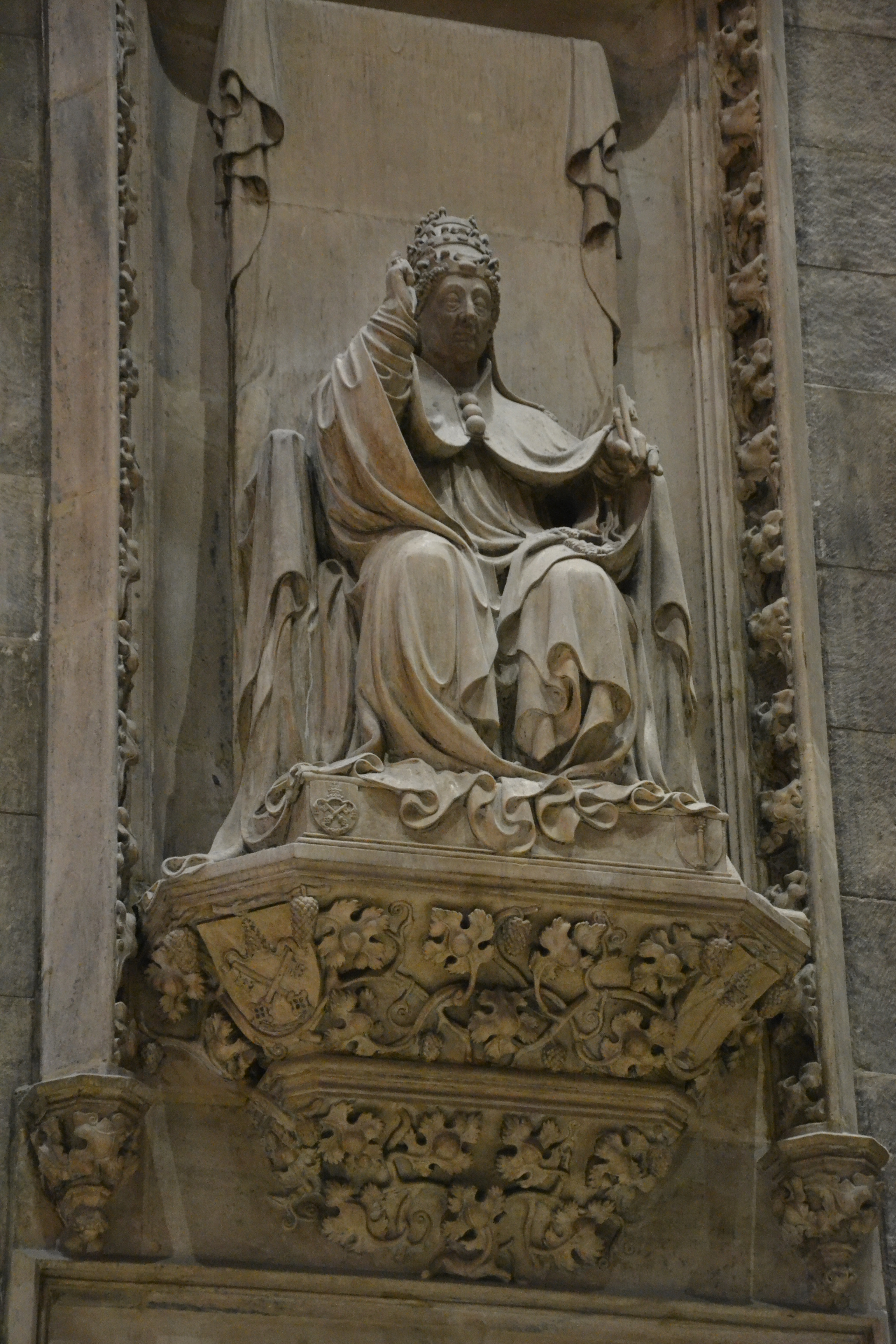 Duomo (Milano) Monument to Martinus V